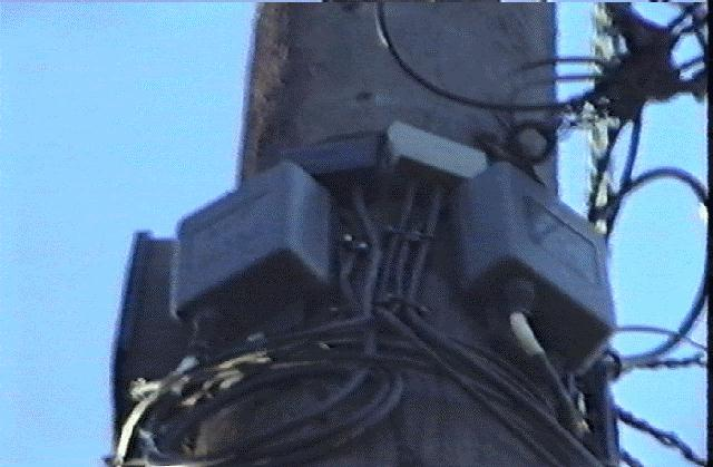 Photograph of many DACS remote units at the top of a BT pole